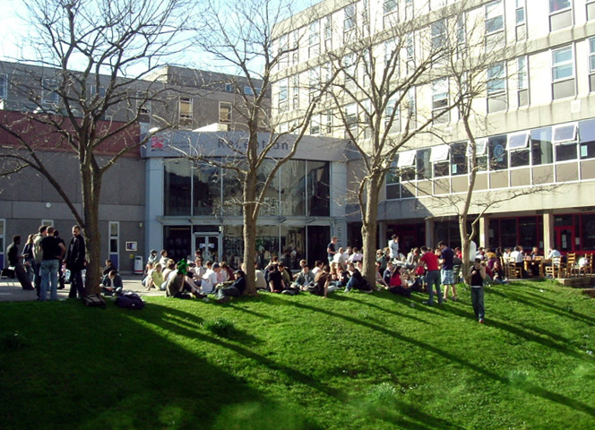 University of the West of England Frenchay campus reception.